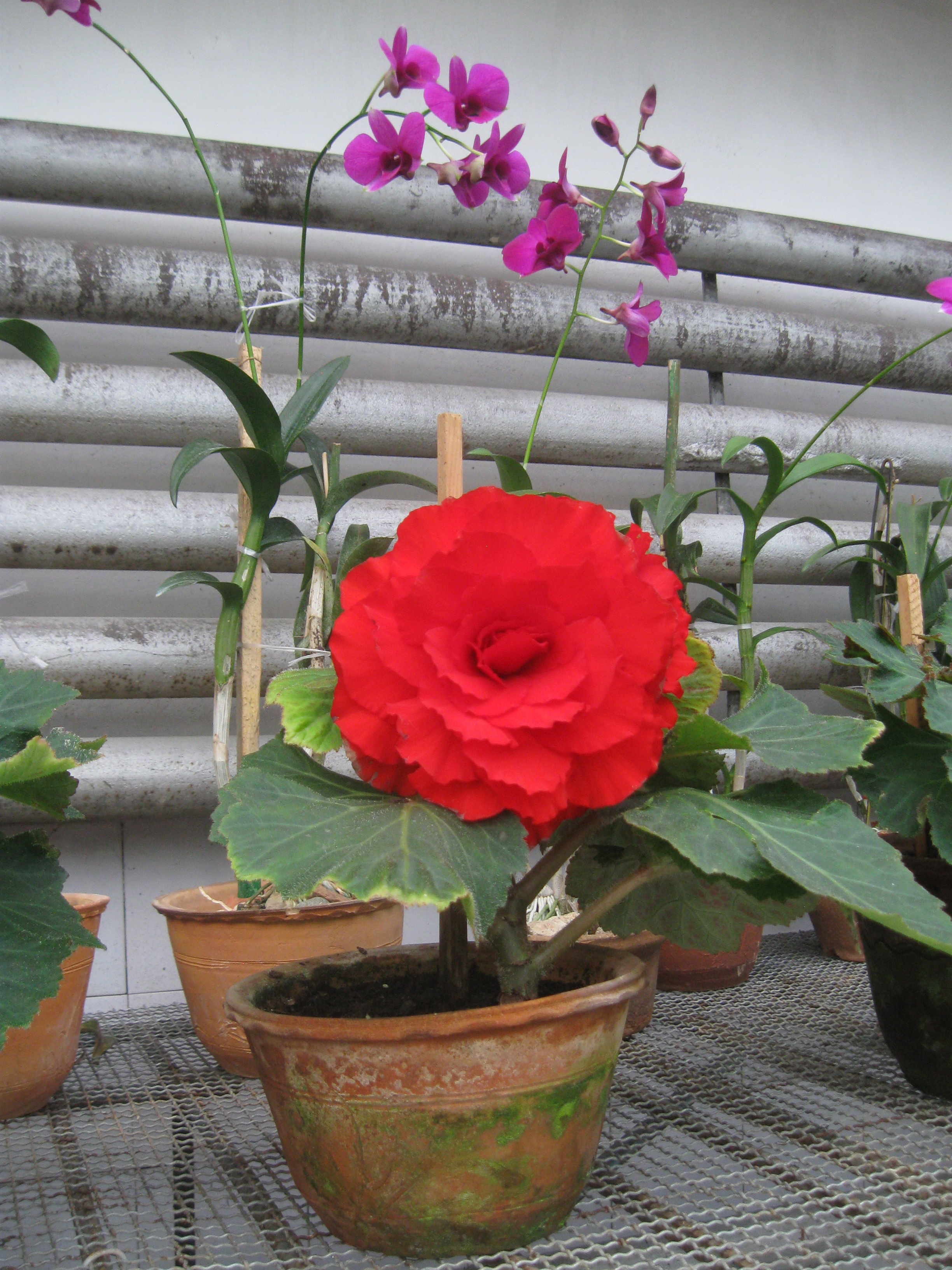 North Korea